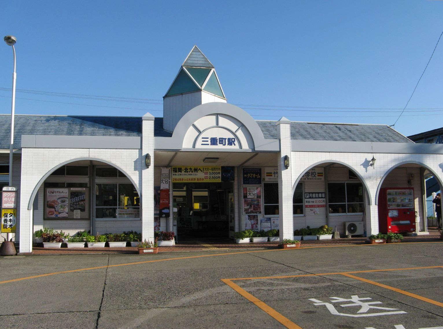 Miemachi Station, Bungo-ono City, Oita, Japan